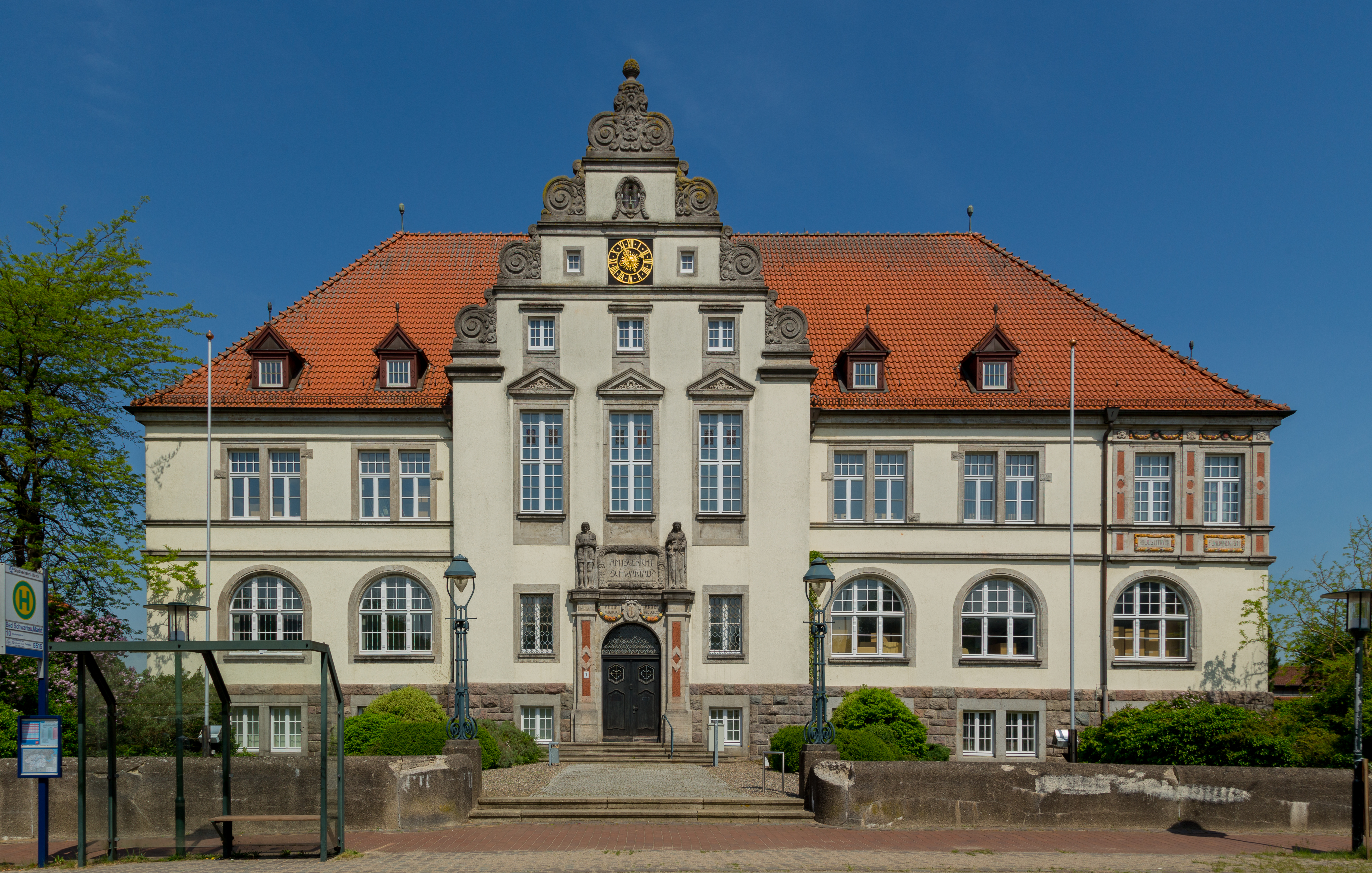 The former Bad Schwartau Local District Court (Amtsgericht Bad Schwartau), 1 Market [Square] (Markt 1) in Bad Schwartau, Kreis Ostholstein, Schleswig-Holstein, Germany.